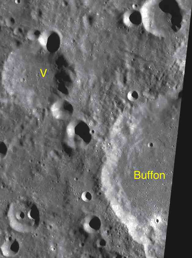 Part of the chart LAC-121 used for the presentation.